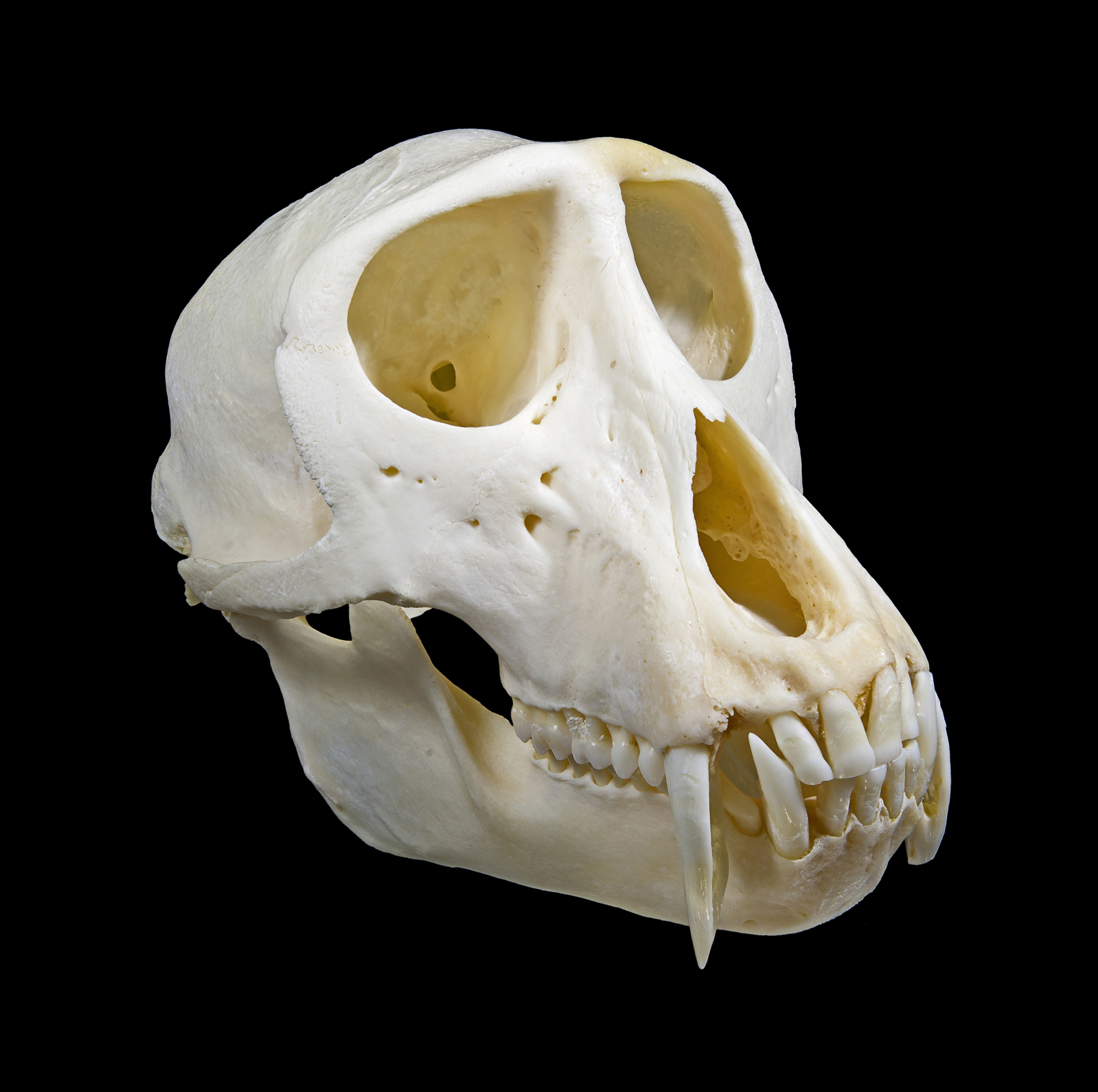 Green monkey (Chlorocebus sabaeus Linnaeus 1758) Male Size : 143 × 88 × 96.5 mm